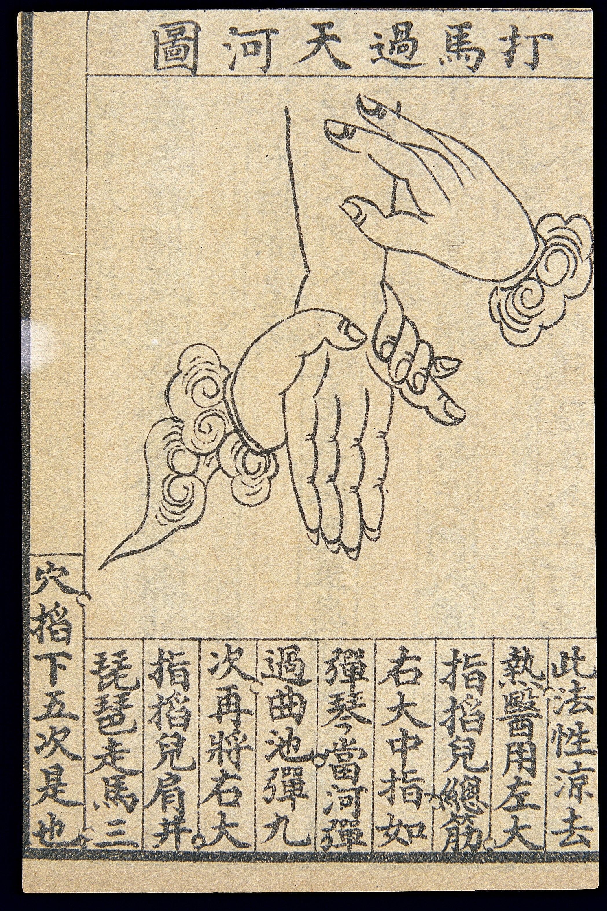 Youke san zhong(Three Books of Paediatrics) is a mid 20th century composite edition of three classics of paediatrics:Zengbu douzhen yusui jinjing lu(The Gold And Chalcedony Mirror of Pox Diseases, Expanded Edition) by Weng Zhongren (Ming period, 1368-1644),Youke tiejing(Iron Mirror of Paediatrics) by Xia Ding (Qing period, 1644-1911), andXiao'er tuina guangyi(Overview of PaediatrictuinaMassage) by Xiong Yingxiong (Qing period). A small number of illustrations are included in a supplement.This illustration of 'Whipping the Horse over the Milky Way', in traditional ink and brush style, is one of 16 illustrations of hand and arm massage included inOverview of Paediatric tuina Massage. Lithograph